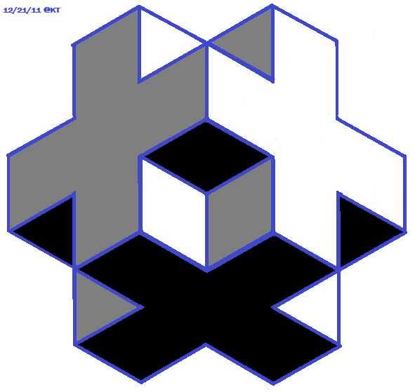 An optical illusion producing a box/cube based on an axonometric cube framed by cross-shaped walls/floors. a design seen in a crop circle.